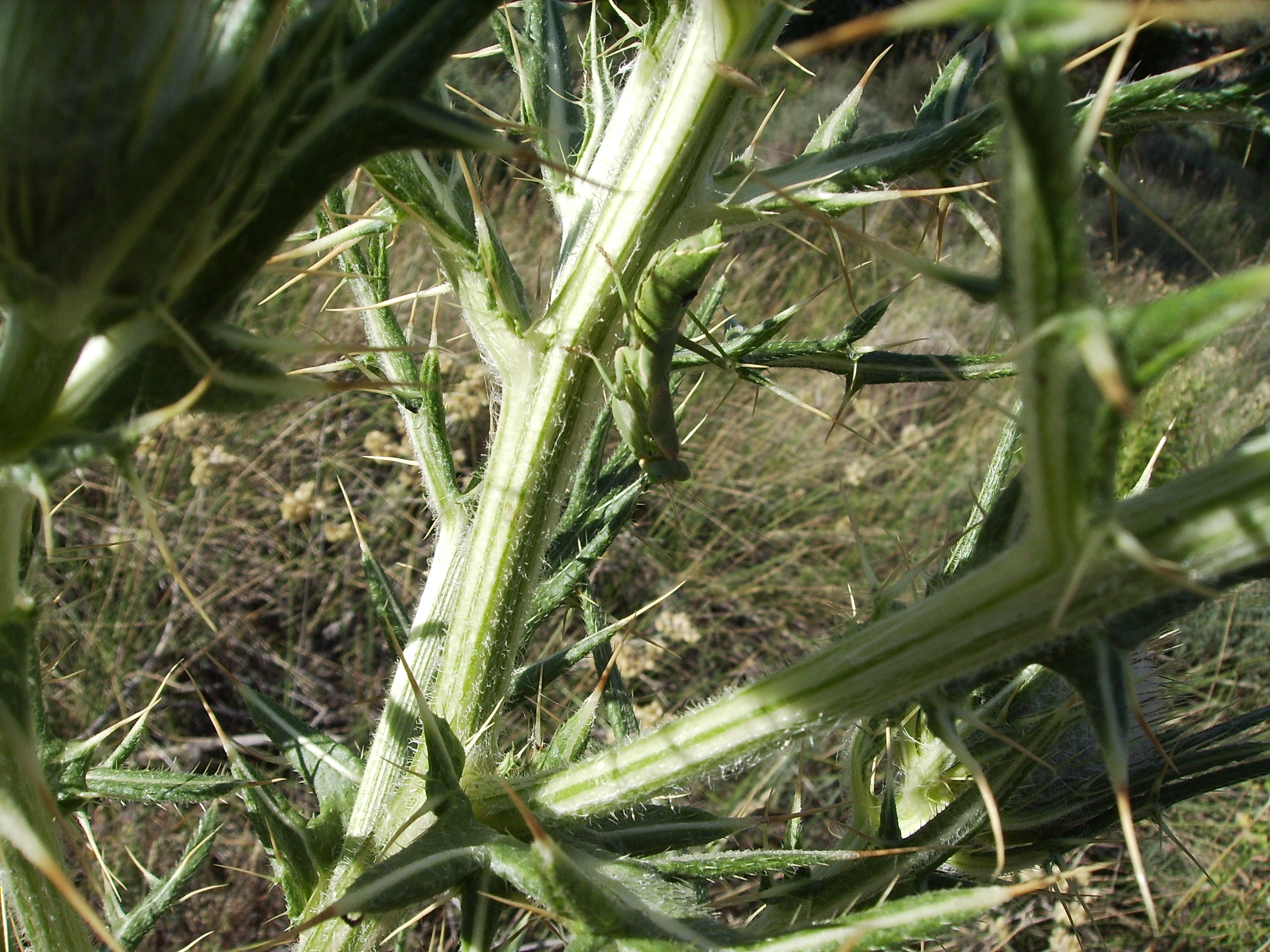 Mimicry: Mantis religiosa and Asteraceae plant both green